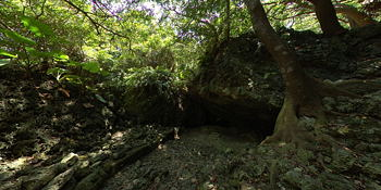 The entrance to the cave in the Mabuni hillside where several dozen Himeyuri students died during the Second World War